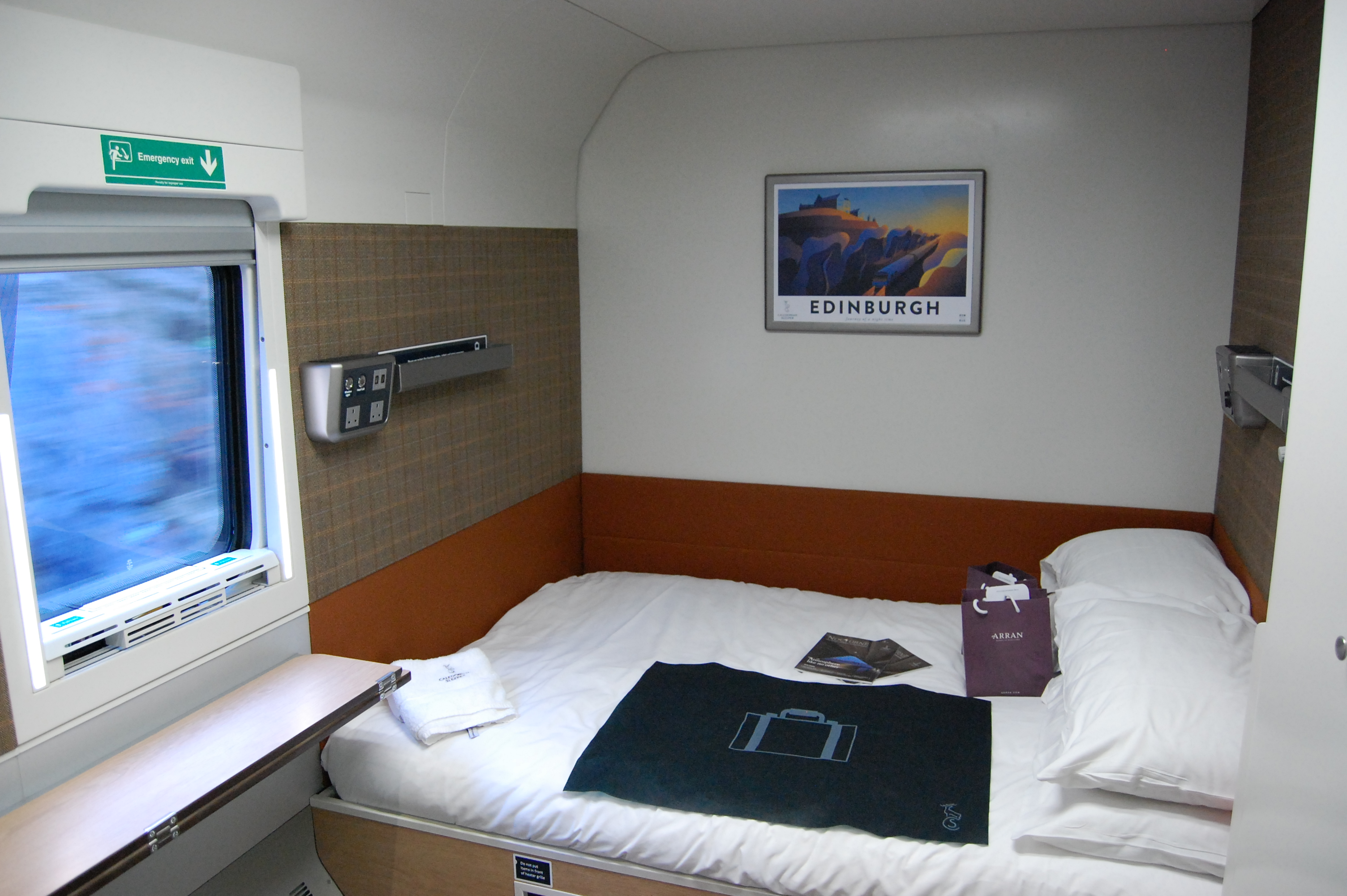 Caledonian Sleeper Mk5 suite - the first double bed rooms on a Sleeper train in the UK.